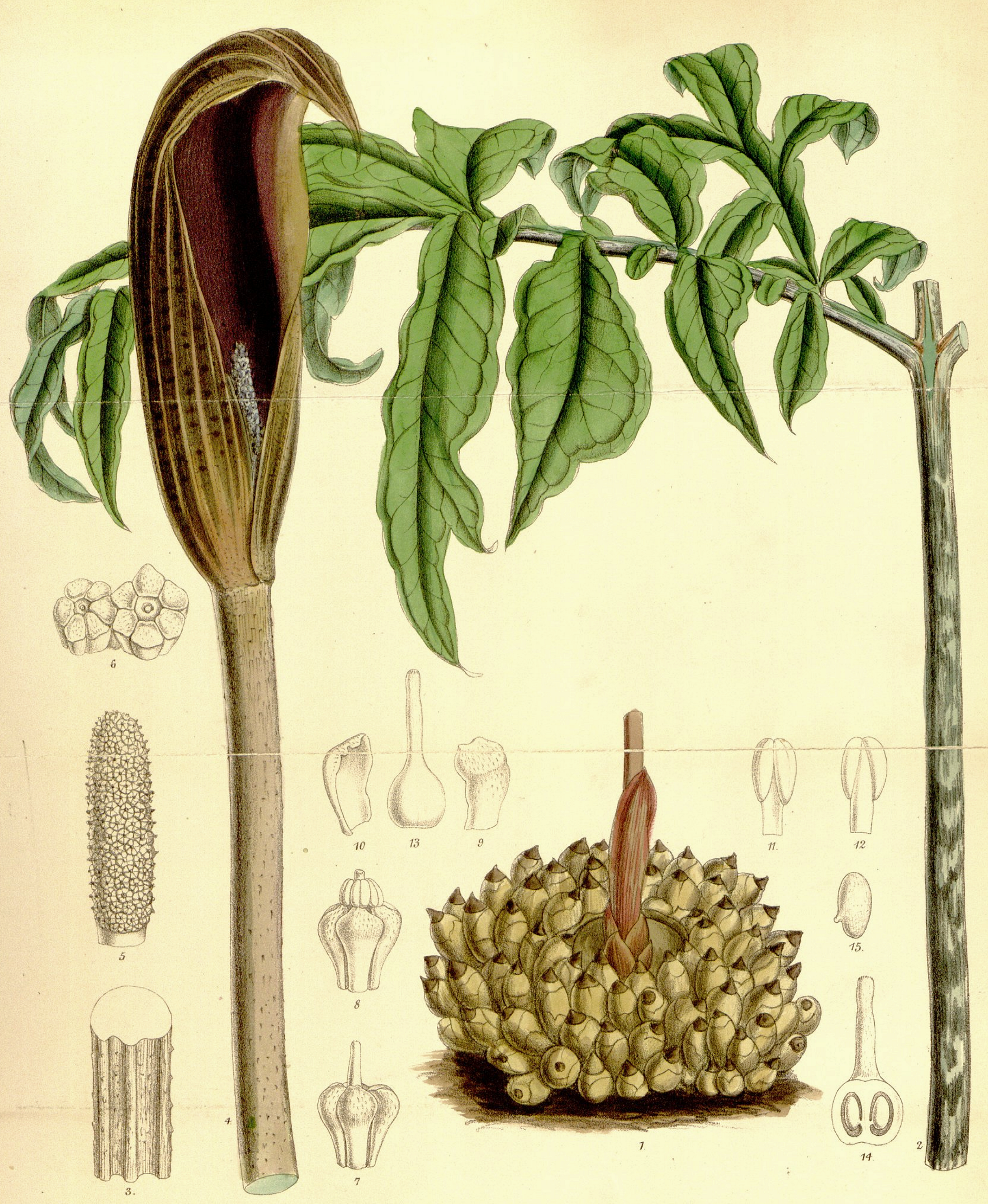 Dracontium asperum